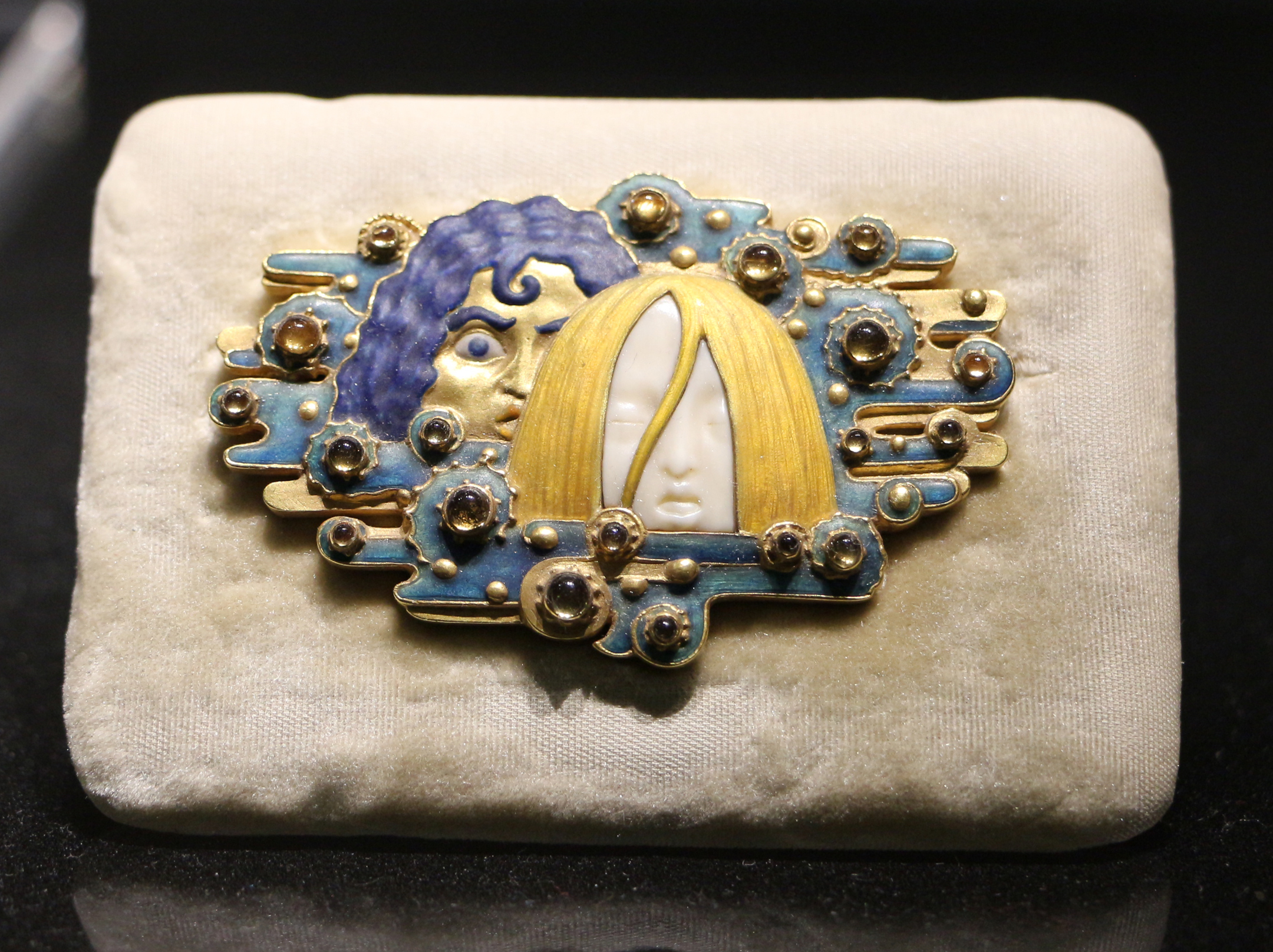 Decorative arts in the Musée d'Orsay